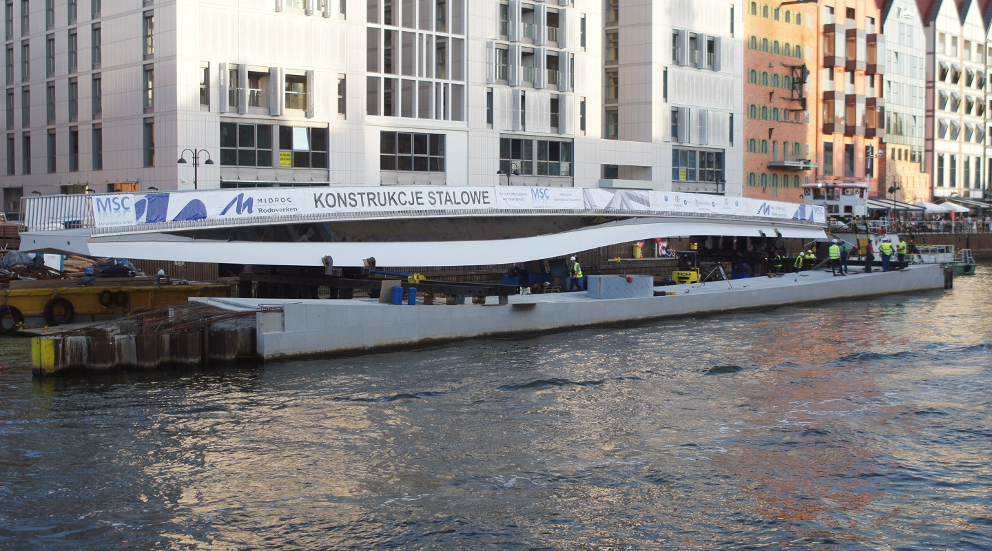 Footbridge to Granary Island in Gdańsk, mounting of the swing bridge